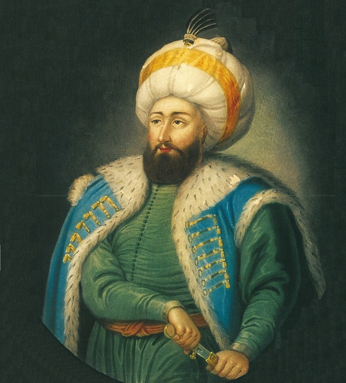 Portrait of Mehmed II (1432-1481), Sultan of the Ottoman Empire